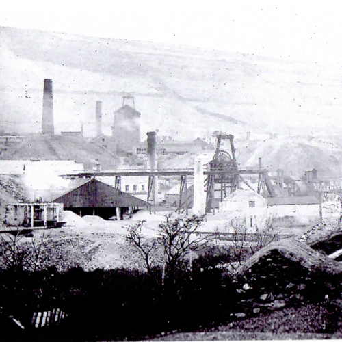 Foxdale Mines (circa 1880)